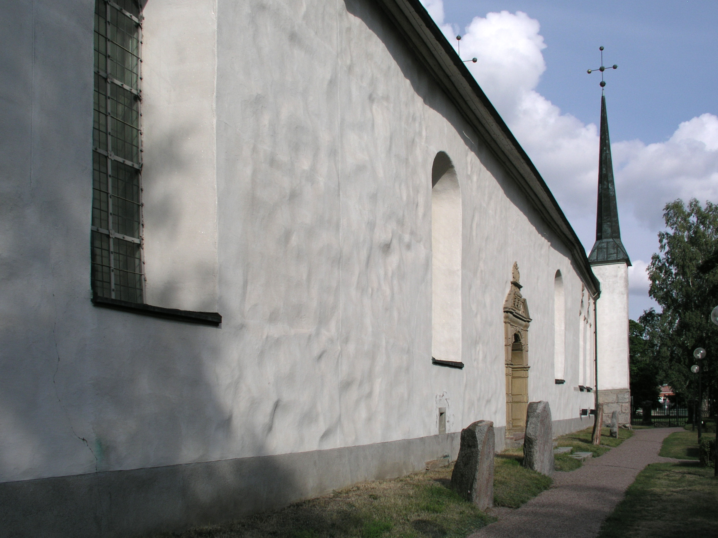 Björklinge church, Diocese of Uppsala, Sweden. Church wall with runestones.